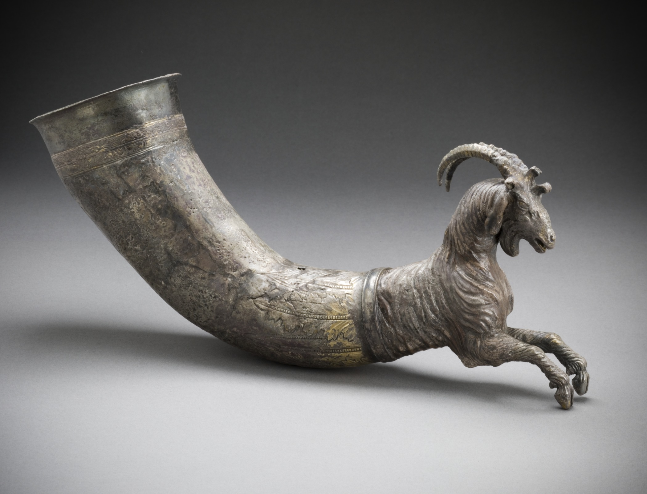 Iran, 150 B.C. - A.D. 225 Tools and Equipment; rhyta Silver with mercury gilding 6 x 14 1/2 x 3 3/4 in. (15.24 x 36.83 x 9.53 cm) Anonymous gift (AC1992.284.1) Art of the Ancient Near East Currently on public view: Hammer Building, floor 3